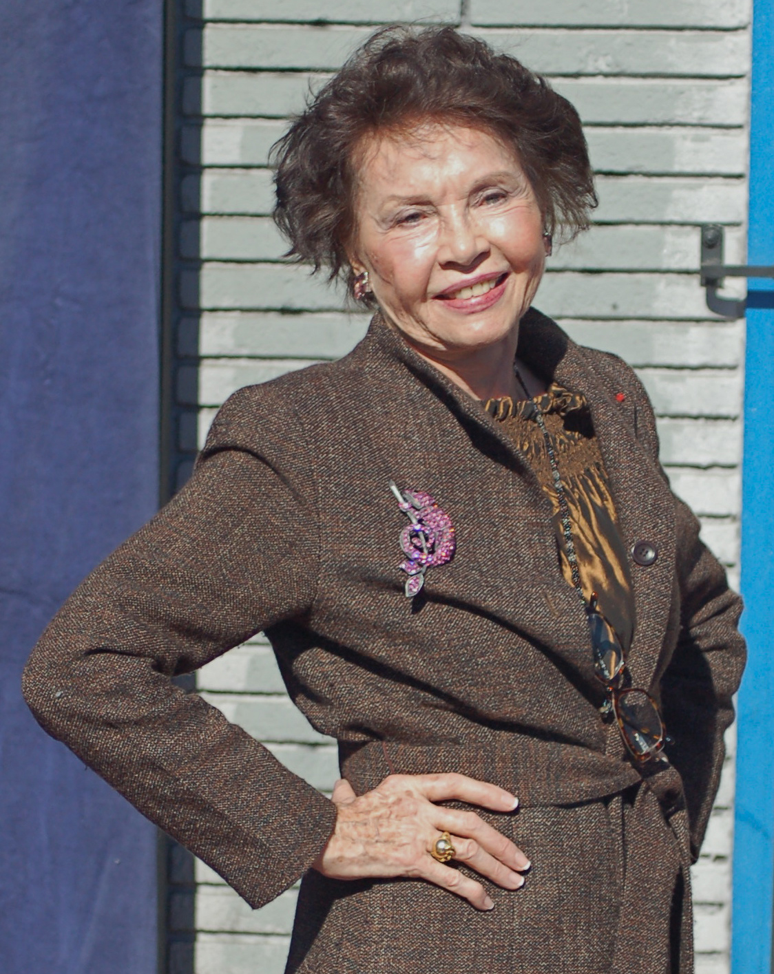 Leslie Caron at her ceremony to receive a star on the Hollywood Walk of Fame.